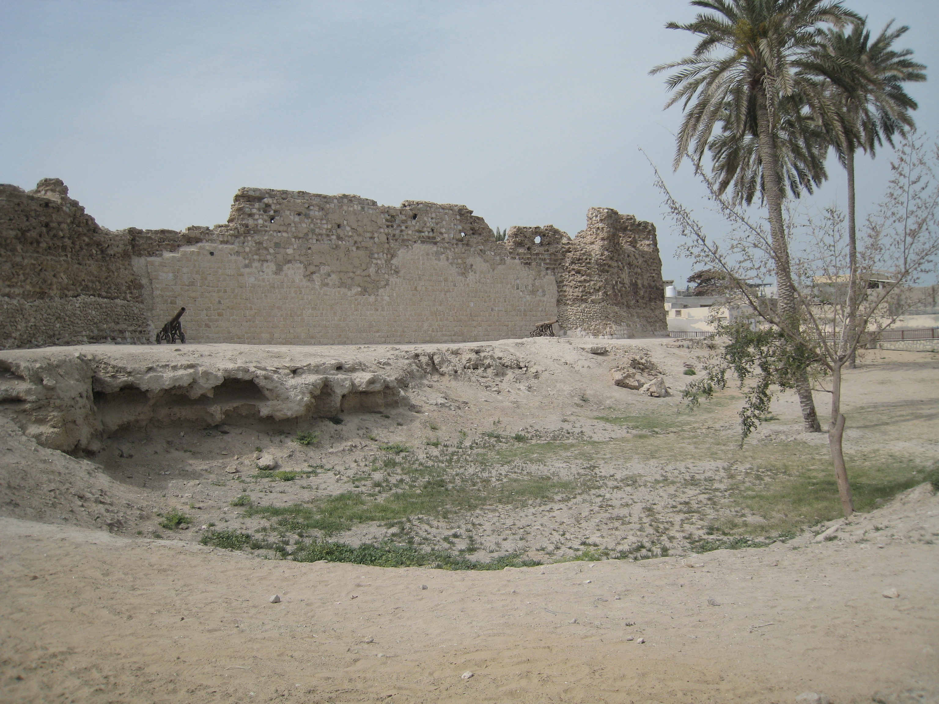 Portuguese castle in the Qeshm town, Qeshm Island, Iran.